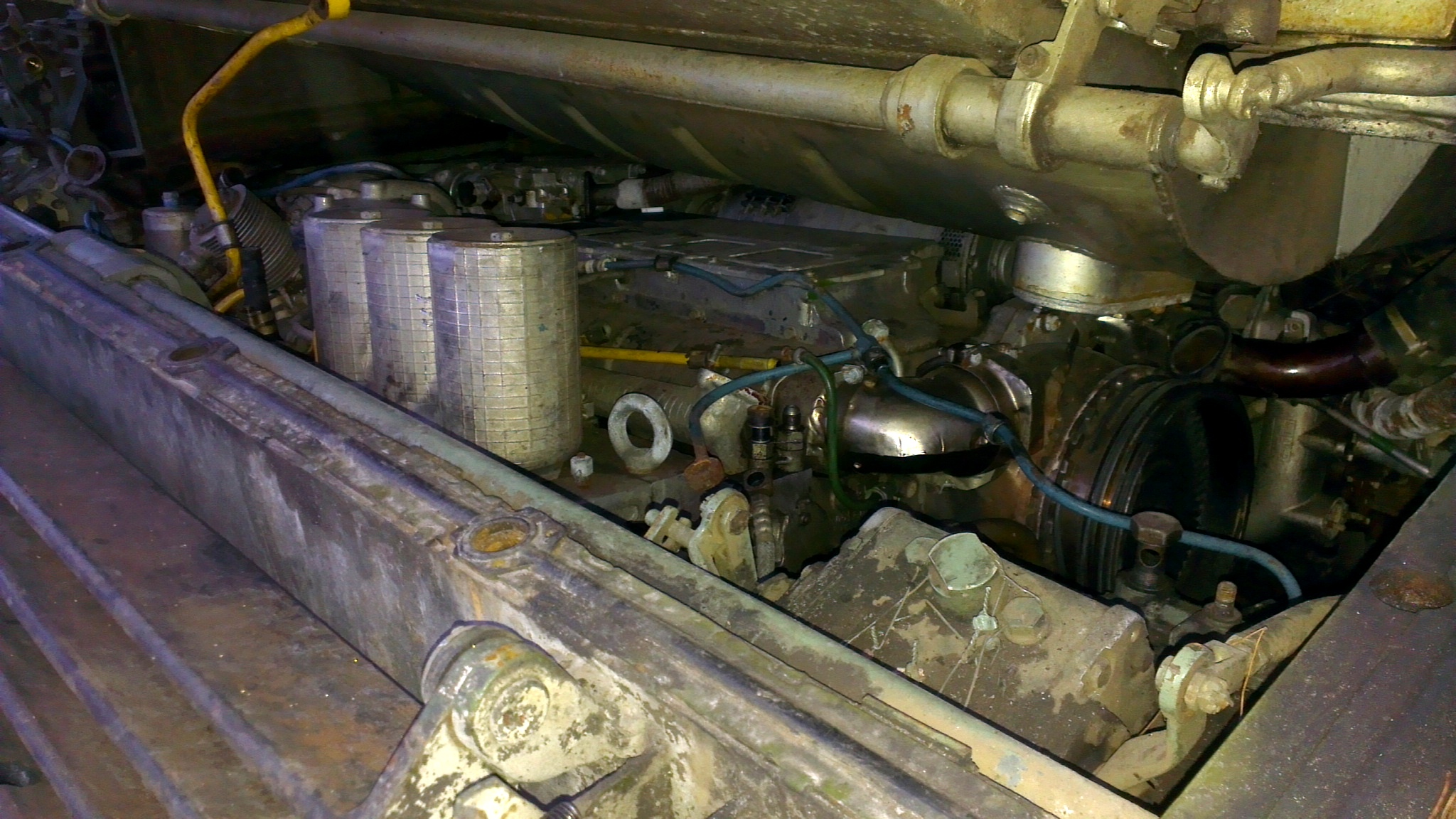 Photo of a 5TDF engine in the engine compartment of a T-64BV main battle tank